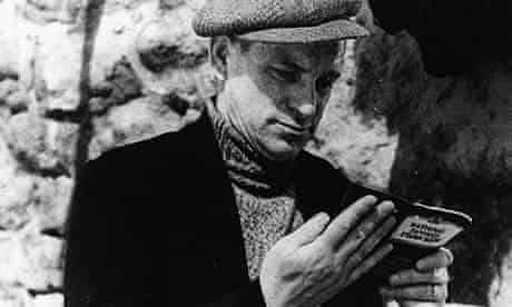 Bill Blewitt in The Saving of Bill Blewitt made by GPO Film Unit